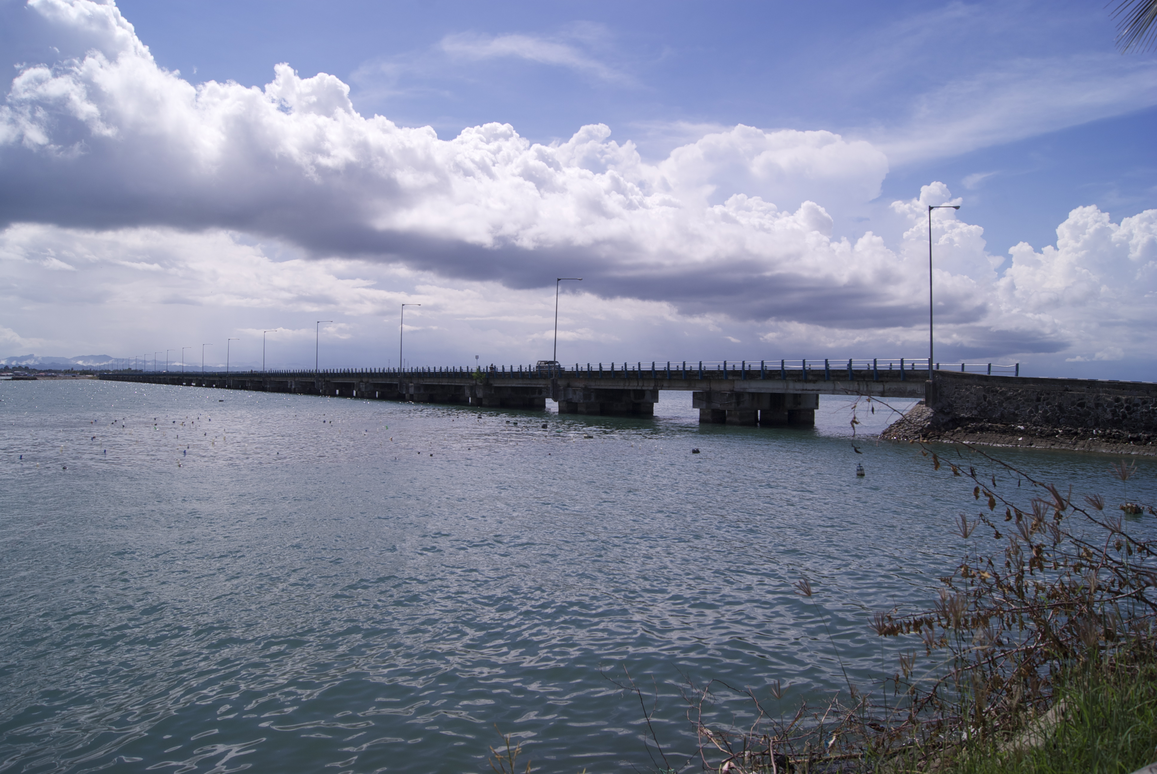 Port of Bajoe, Bone, South Sulawesi, Indonesia